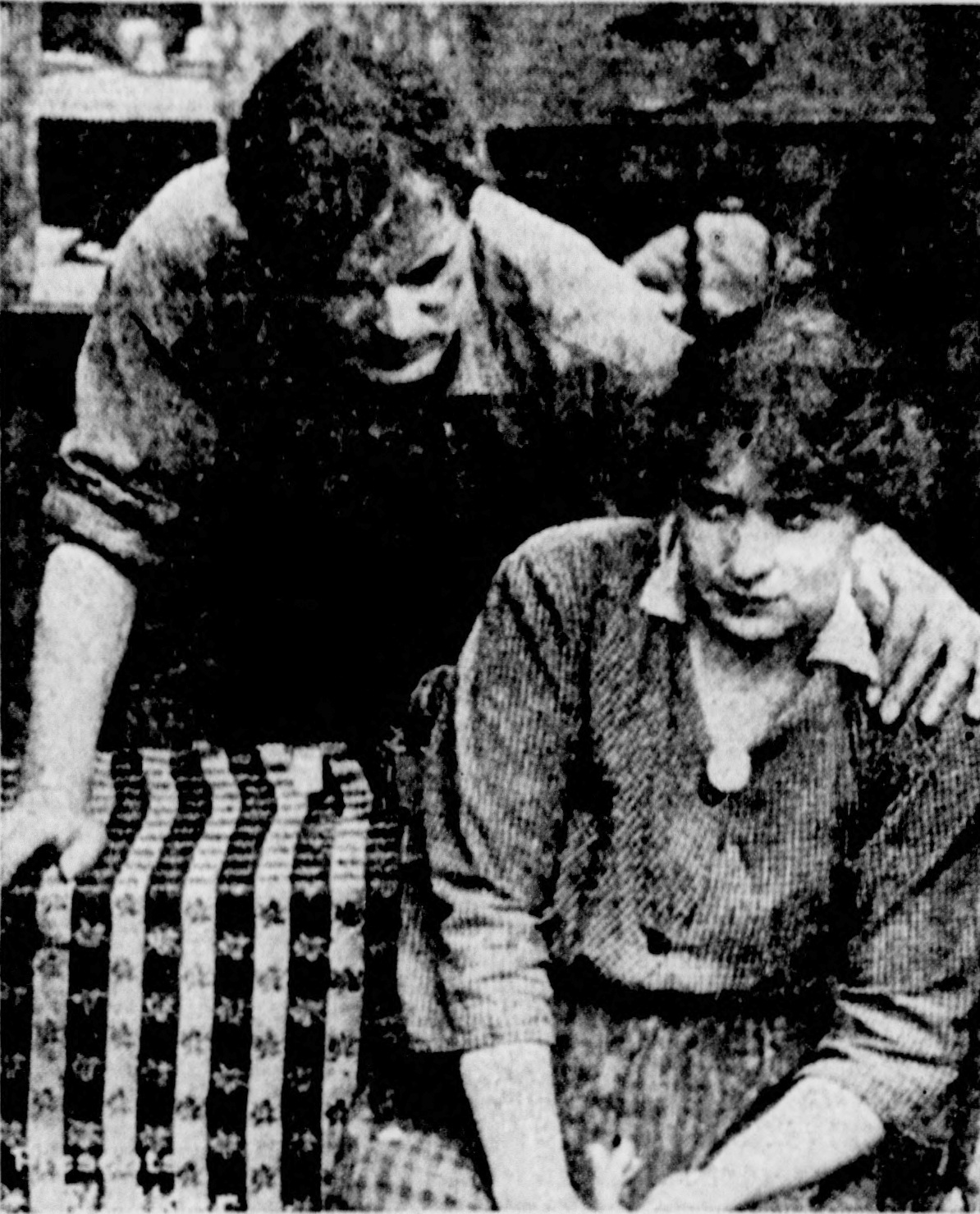 Scene from the 1915 American drama film Kindling published in a newspaper. I think the woman is most likely Charlotte Walker.